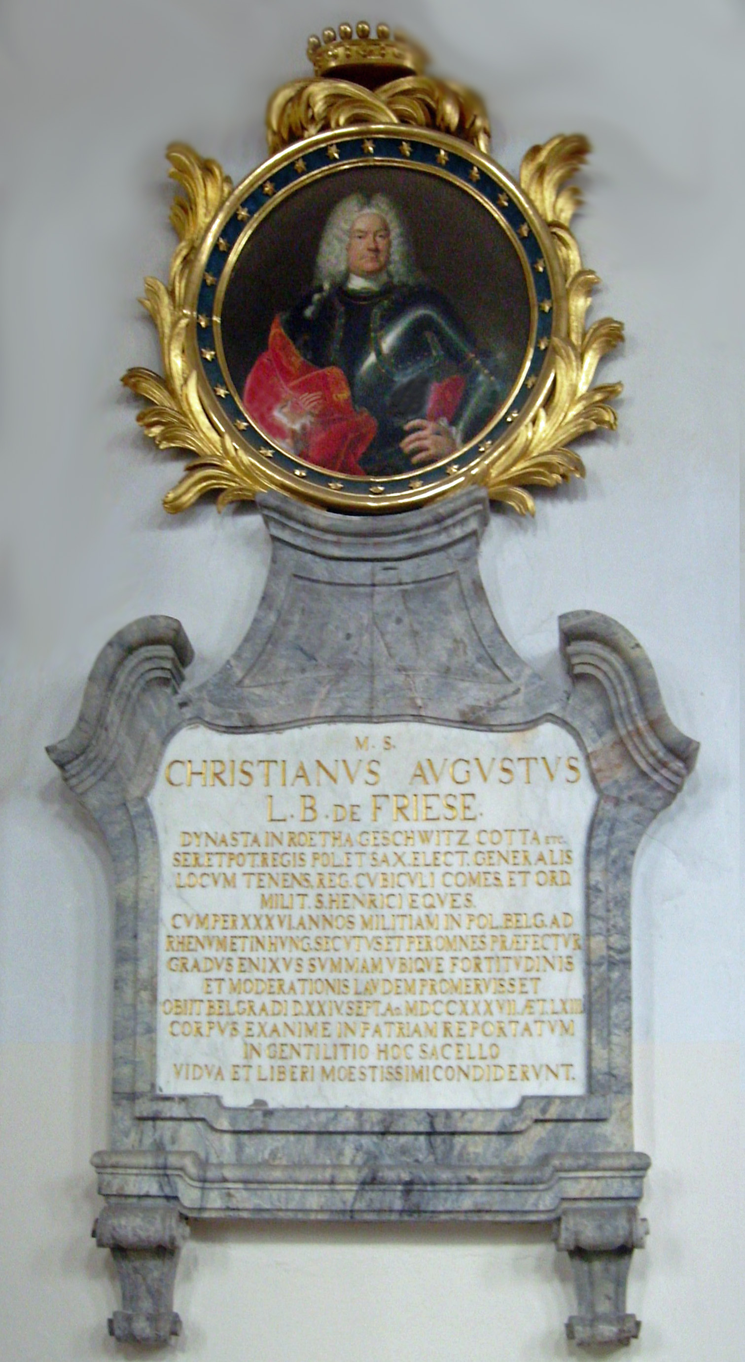 Baroque epitaph of Christian August von Friesen in St. George Church, Rötha (Leipzig district, Saxony), formerly in the castle demolished in 1969